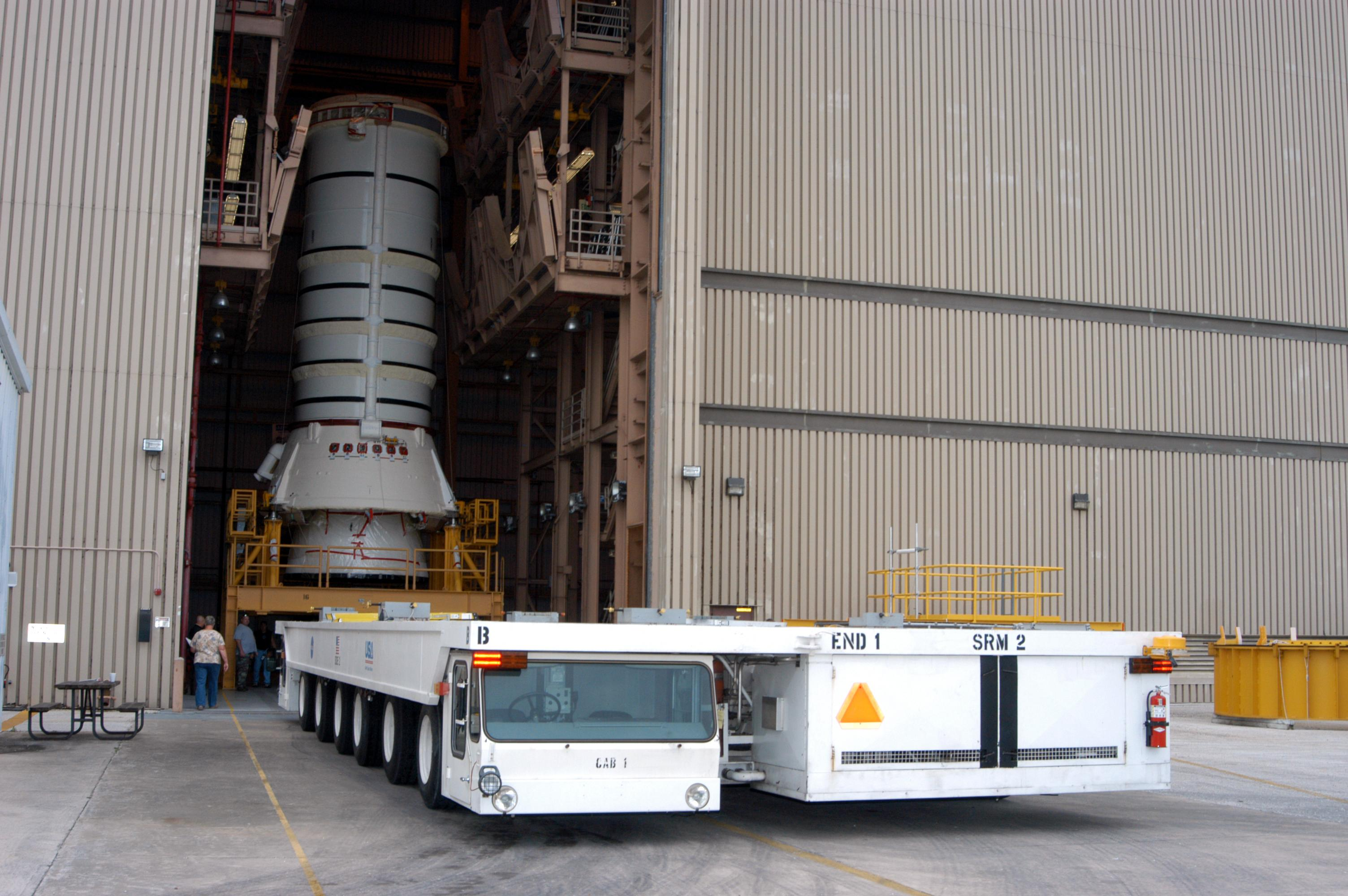 The solid rocket motor transporter is a flat-top Kamag designed to carry segments of solid rocket boosters to the Vehicle Assembly Building where they are stacked and bolted together to form a complete booster.